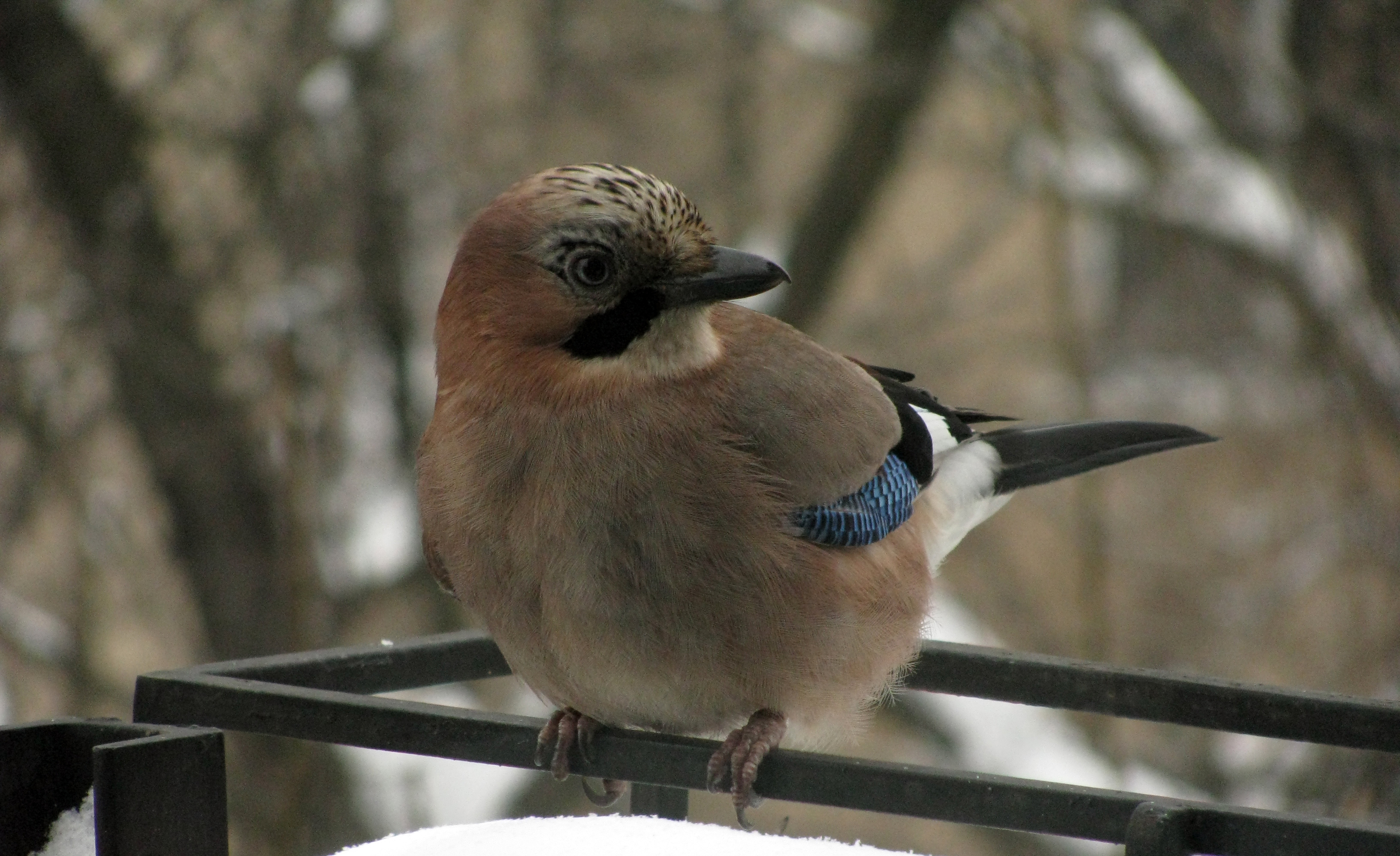 eurasian jay (garrulus glandularis)